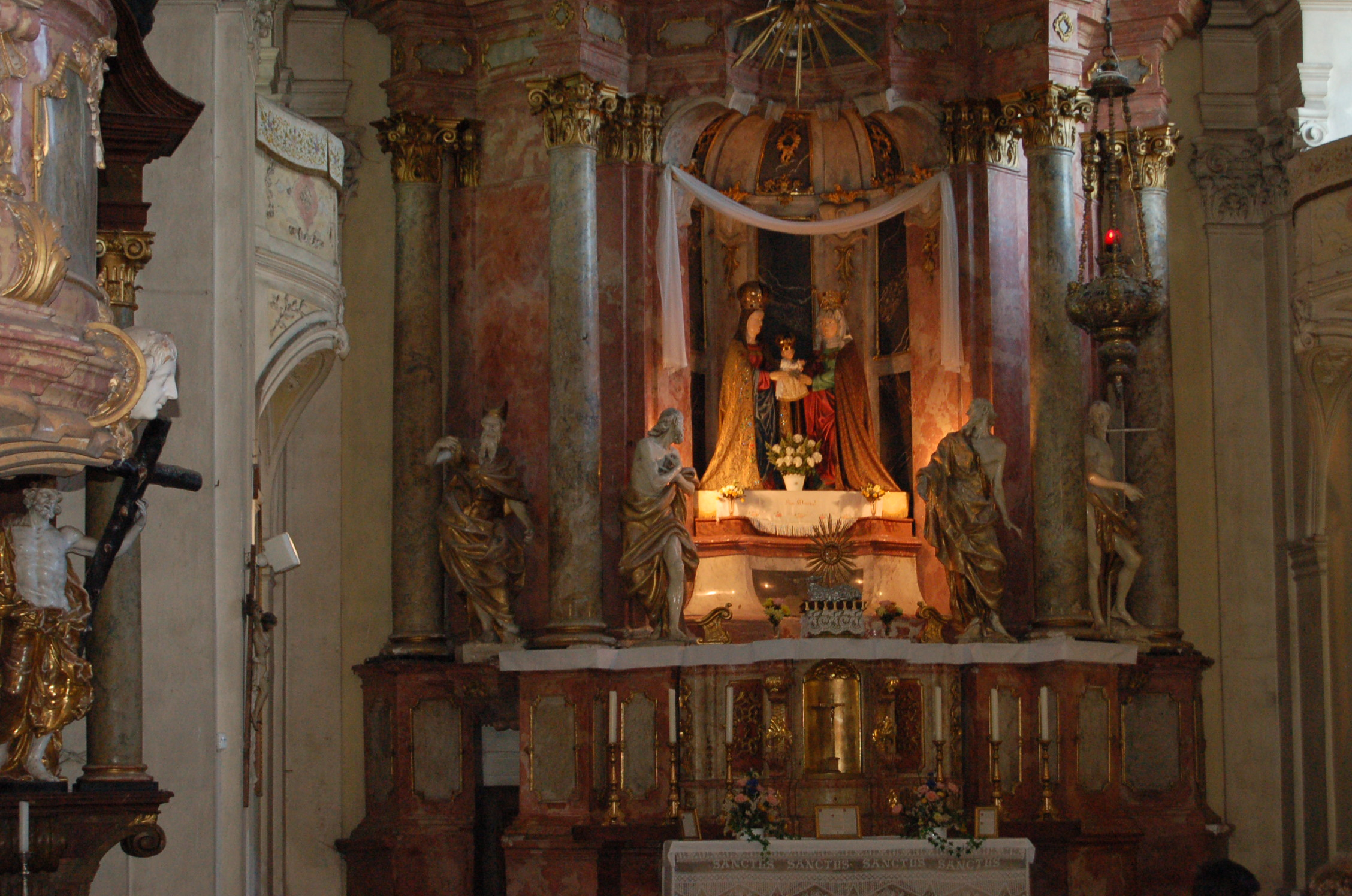 Altar in church of St Anne in Planá, Tachov District, Czech Republic.